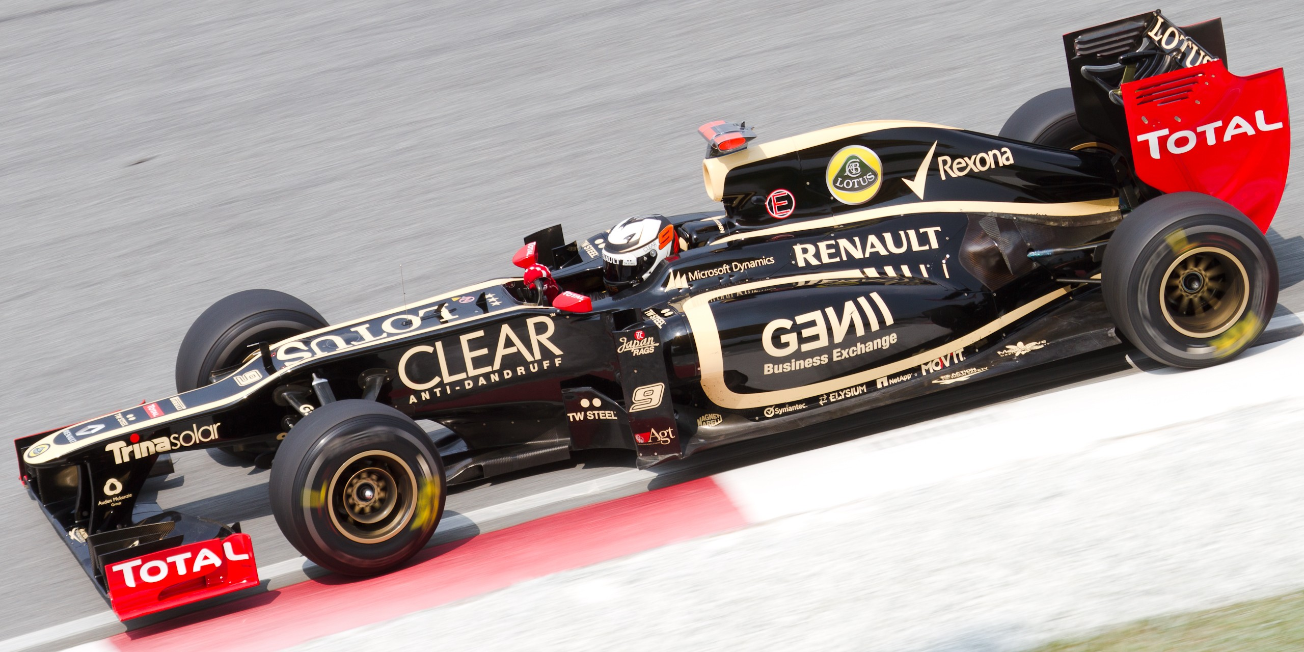 Formula One 2012 Rd.2 Malaysian GP: Kimi Räikkönen (Lotus) during the second practice session on Friday.